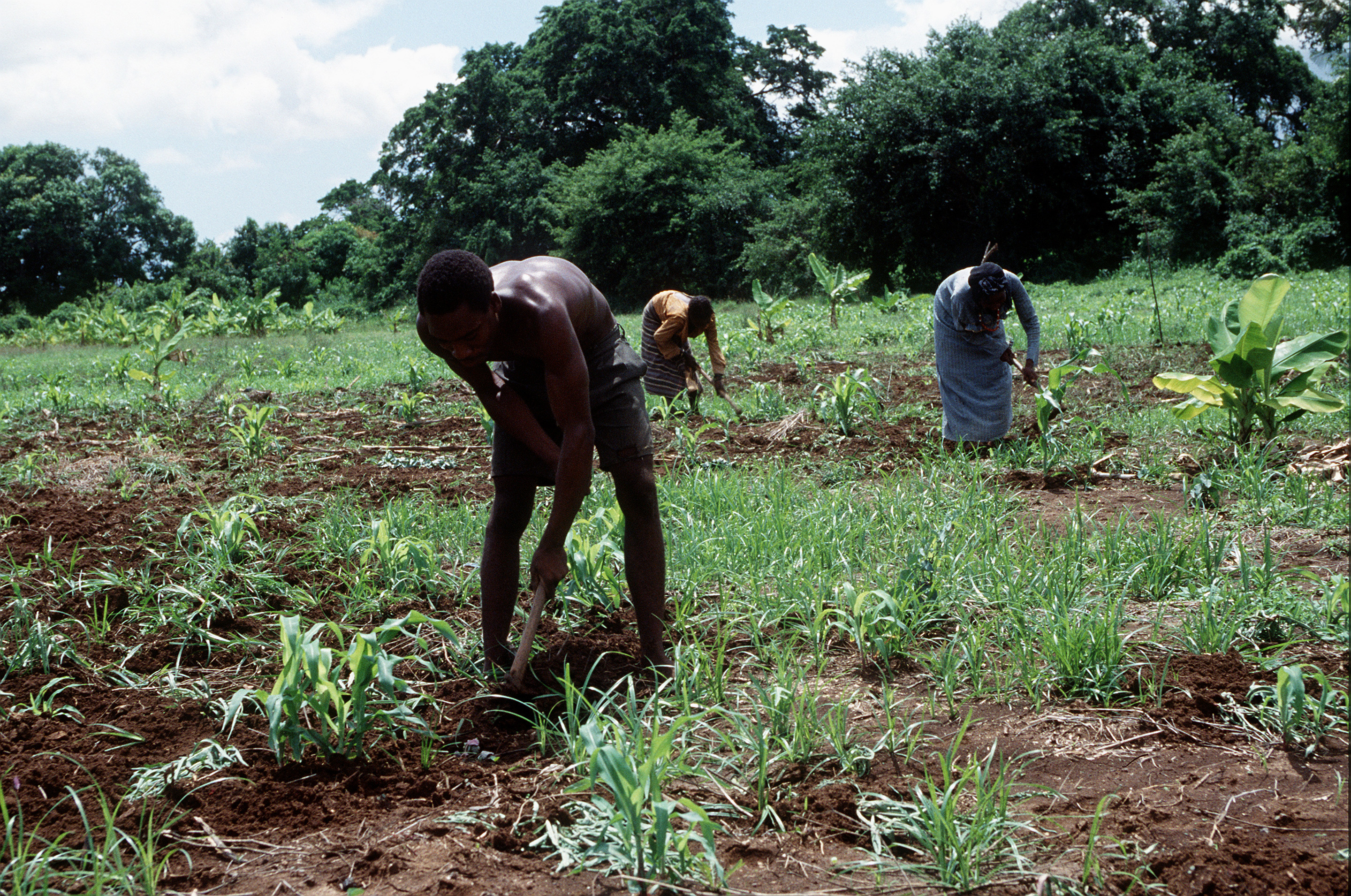 Bantu man and women working the fields near Kismayo.